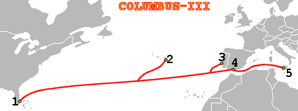 Route of the COLUMBUS-III Transatlantic submarine communications cable.